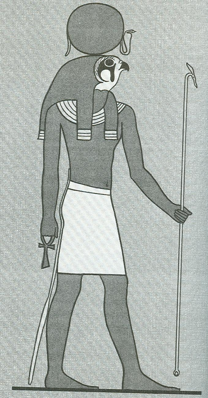 Depiction of Ra-Horakhty, published in The Gods of the Egyptians Volume 1 by E. A. Wallis Budge, circa 1904.